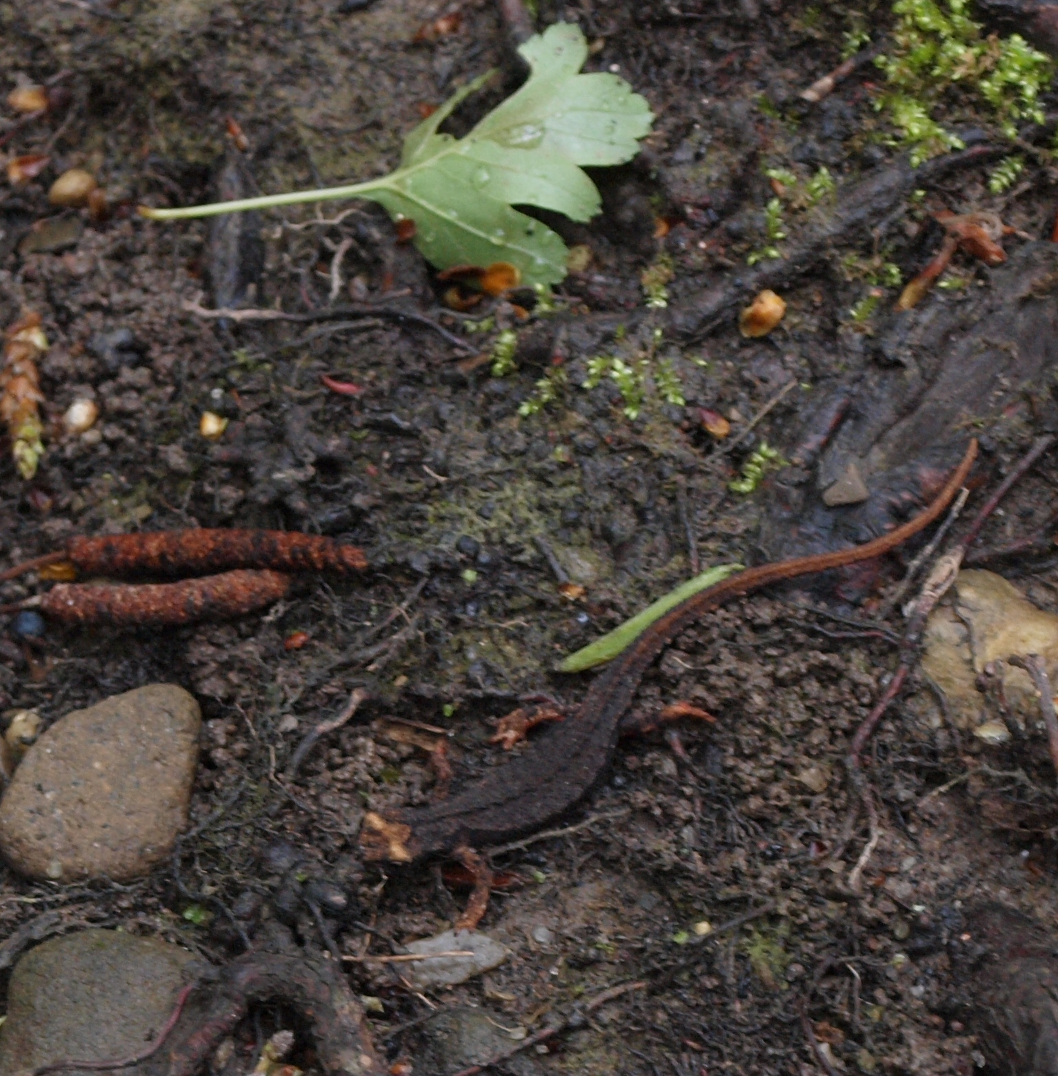 Salamandrina perspicillata Savi, 1821, dorsal view in Marturanum Regional Park (Latium, Italy)